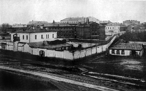 Orel city. Pic. of old russian prison "Orlovskij Tsenral".